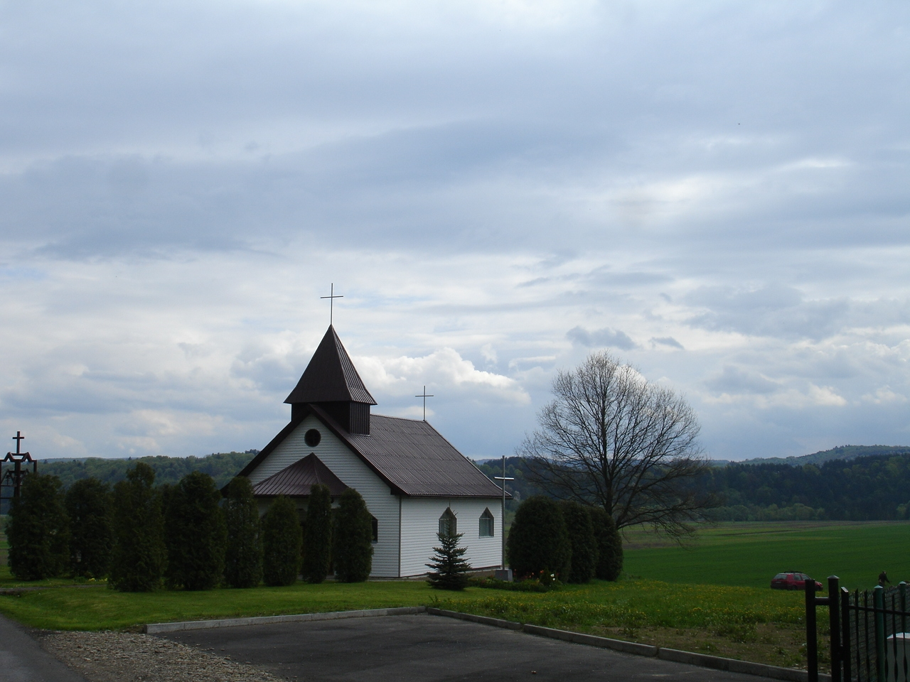 Ulucz new latin church